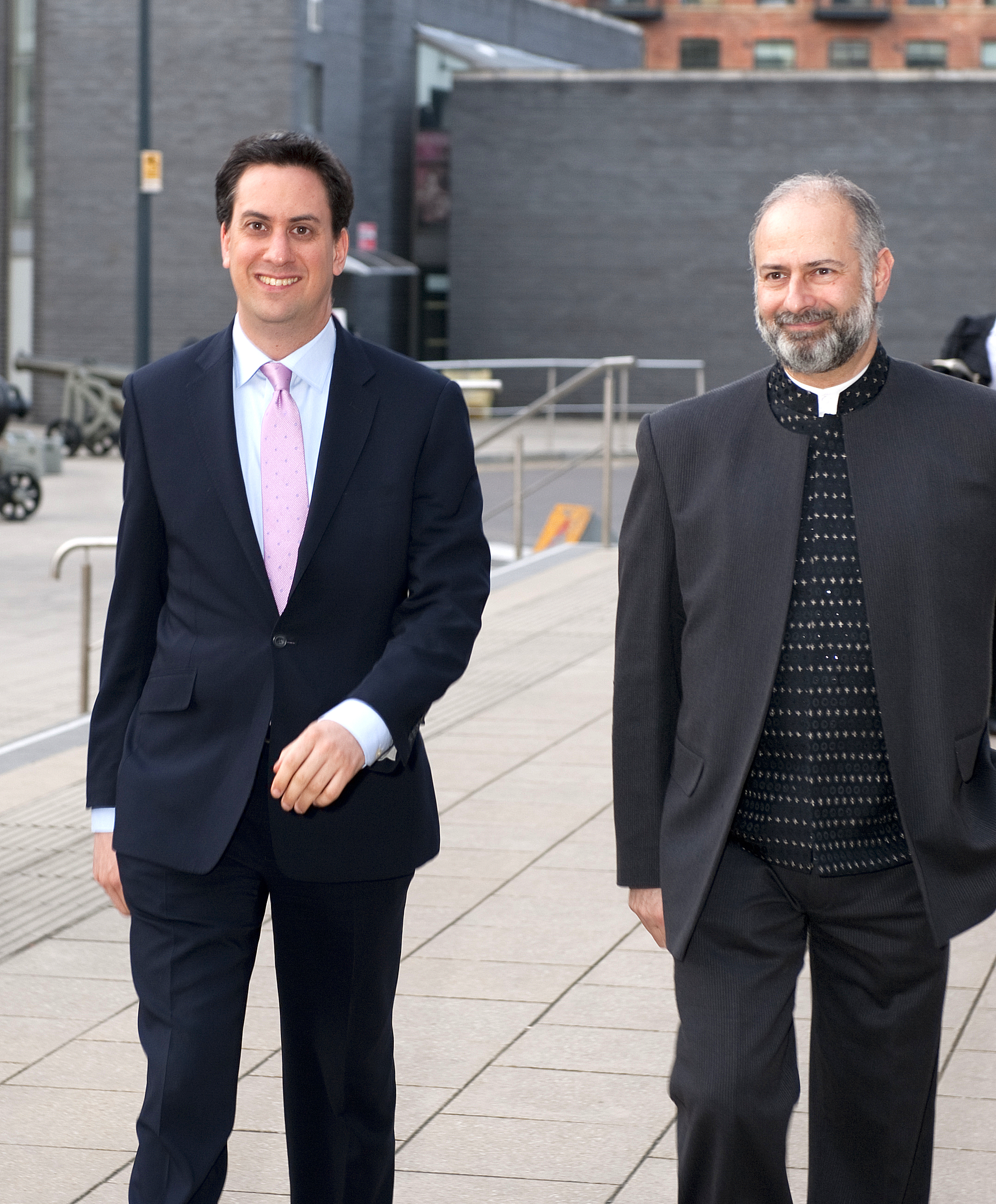 Arriving at Saviles, Clarence Dock, Leeds